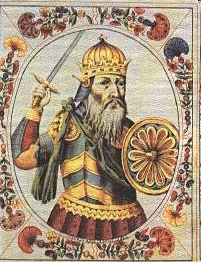 Sviatoslav I of Kiev in the Tsarsky Titulyarnik, 1672